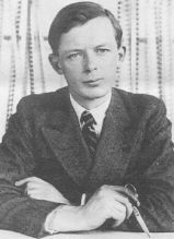 Picture of Olympic 1920 sailor Johan Hin